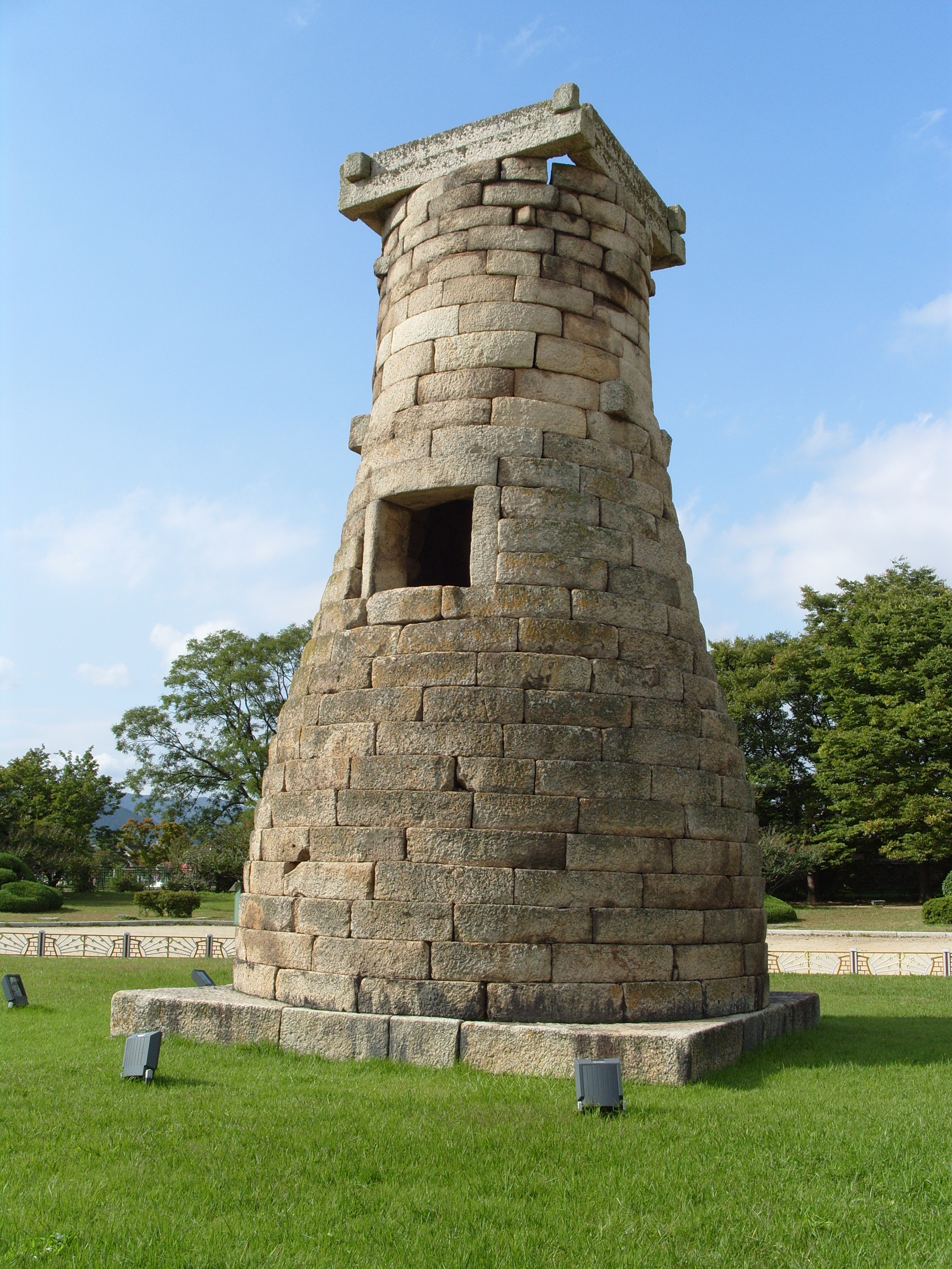 Cheomseongdae is an astronomical observatory in Gyeongju, South Korea. It is the oldest surviving astronomical observatory in Asia. It was constructed in the 7th century in the kingdom of Silla. Cheomseongdae was designated as the Korea's 31st national treasure on December 20, 1962. Modeled on Baekje's Jeomseongdae, which now exists only in historical records, Cheomseongdae influenced the construction of a Japanese observatory in 675, and Duke Zhou's observatory in China in 723.